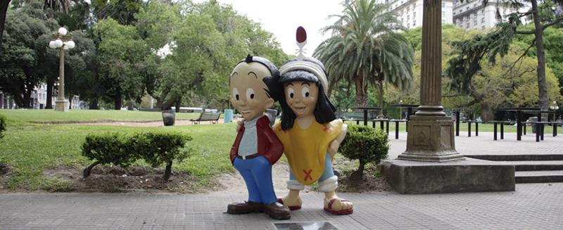 Sculpture of Patoruzito and Isidorito at San Telmo, Buenos Aires City, Argentina.